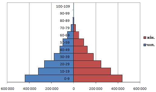 Population pyramide of Volyn government, 1897 census